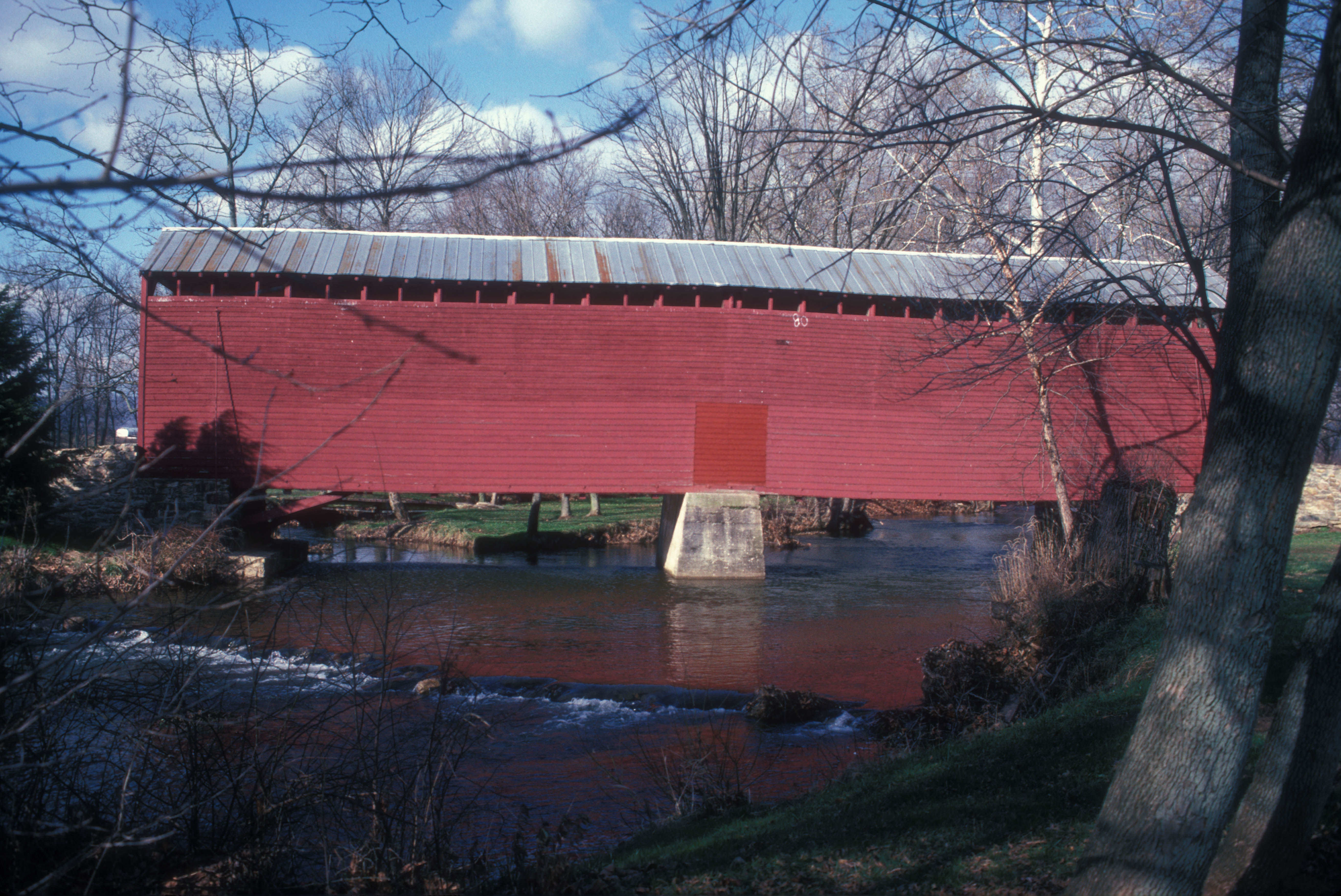 Loys Station Covered Bridge near Thurmont, Maryland, USA. THESE PICTURES WERE TAKEN IN 1985 BEFORE THE BRIDGE WAS BURNT AND REPLACED LATER. THIS IS THE ORIGINAL BRIDGE BECAUSE THIS PICTURE WAS TAKEN IN 1985